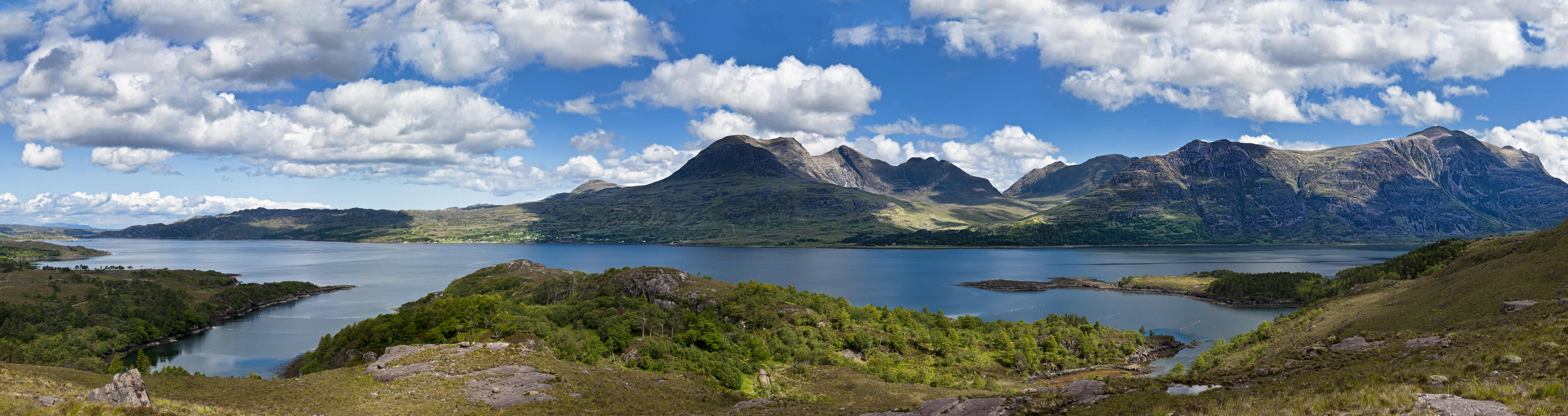 Upper Loch Torridon, west coast Scotland. Panorama, from 7 pictures.